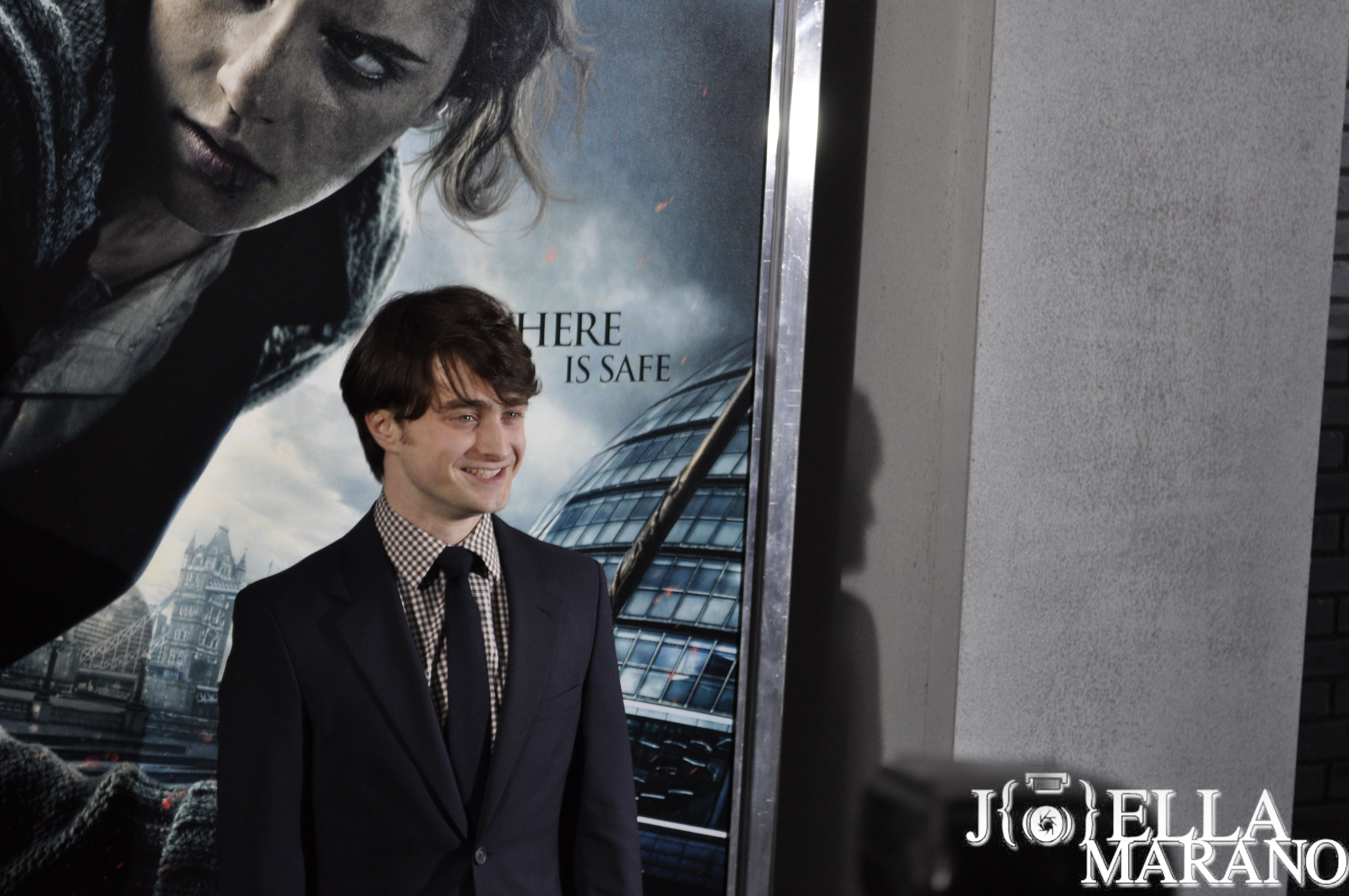 Harry Potter and The Deathly Hallows Premiere Alice Tully Center- NYC November 15th 2010